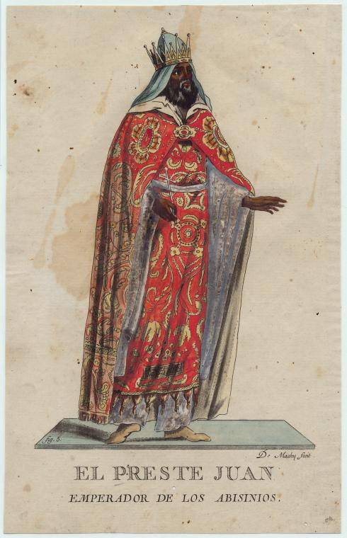 Prester John; Emperor the the Abyssinian